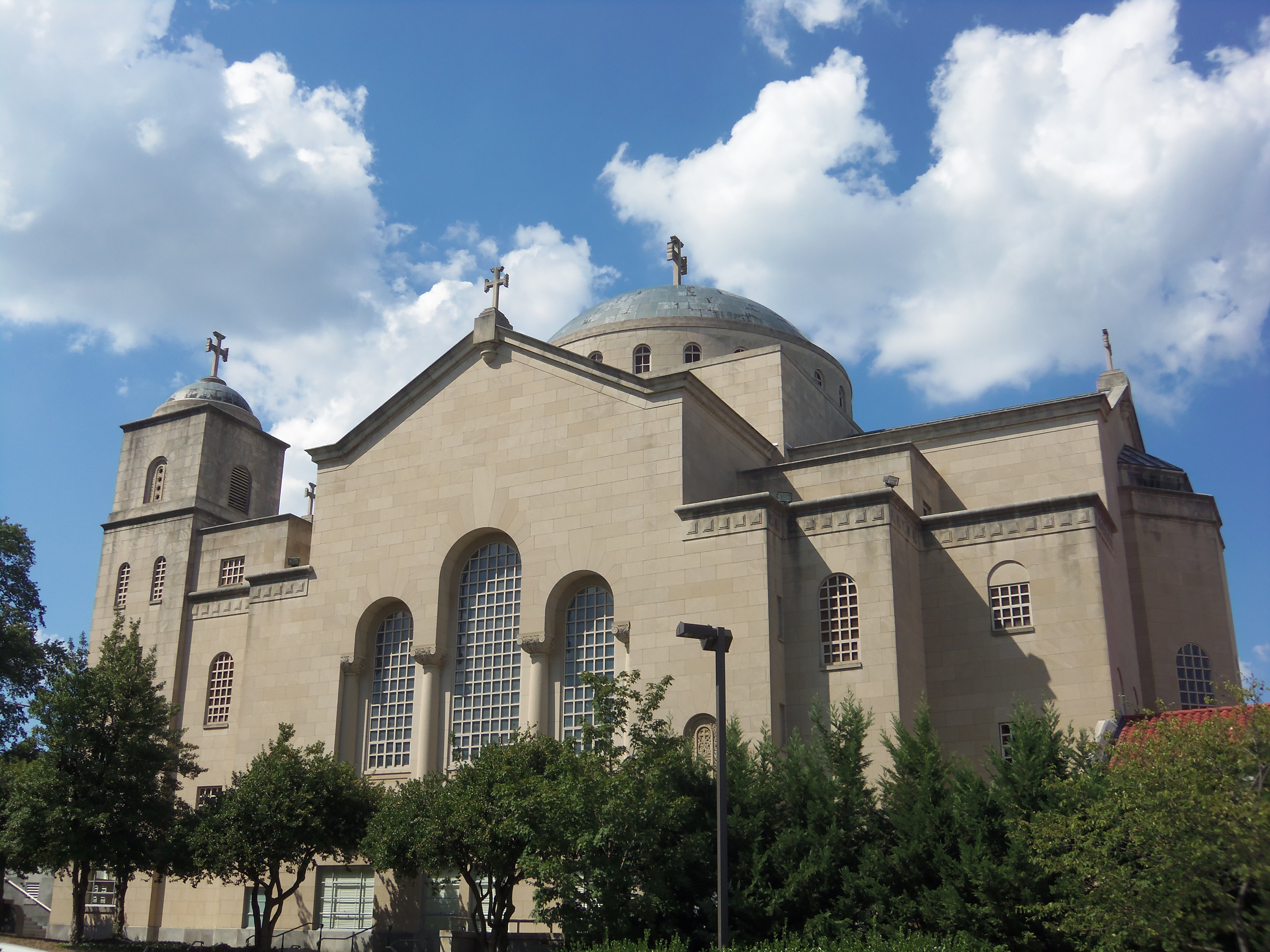 St. Sophia Greek Orthodox Cathedral in Washington, DC.